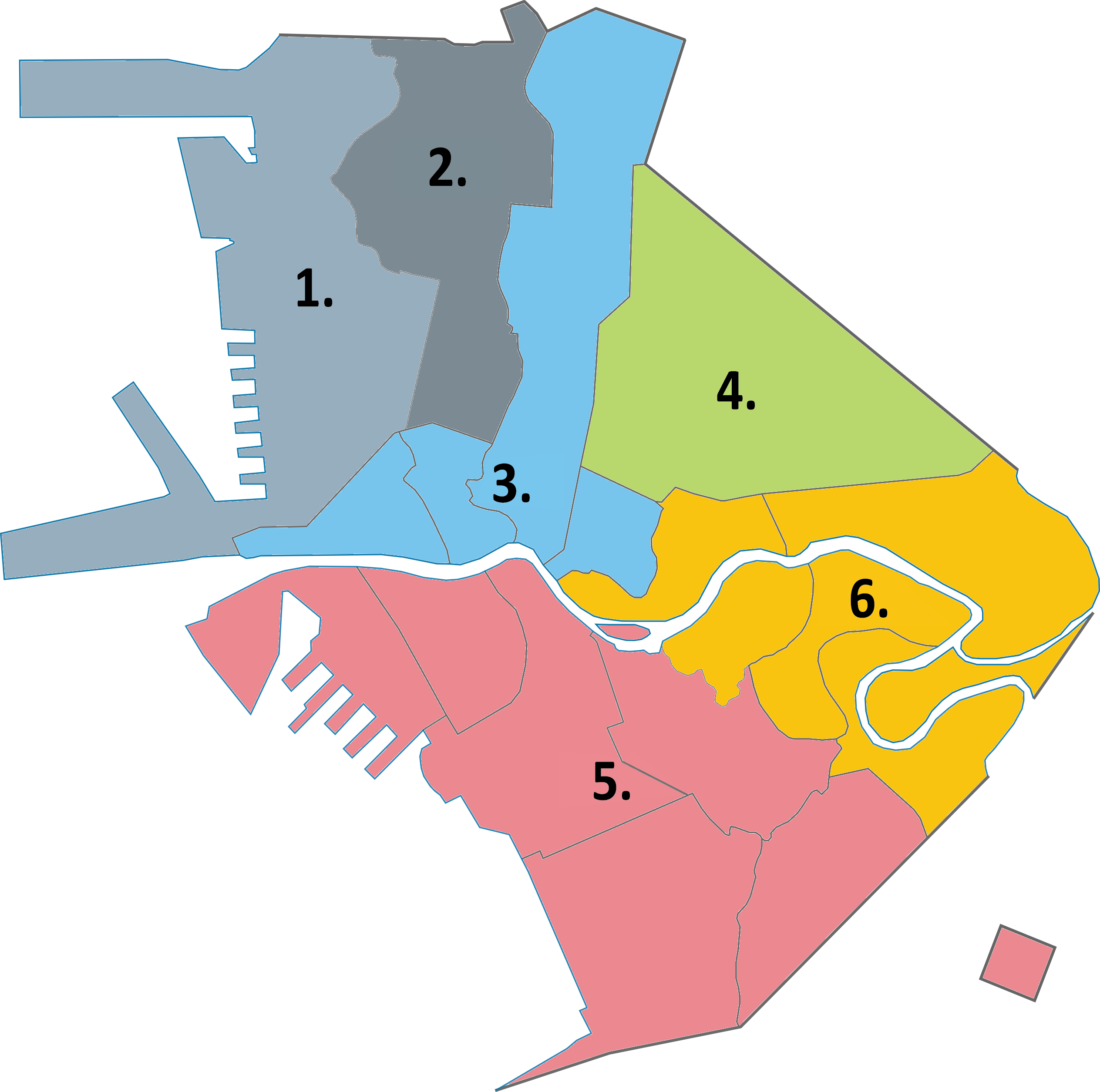 Legislative districts of Manila (translated into Serbian)